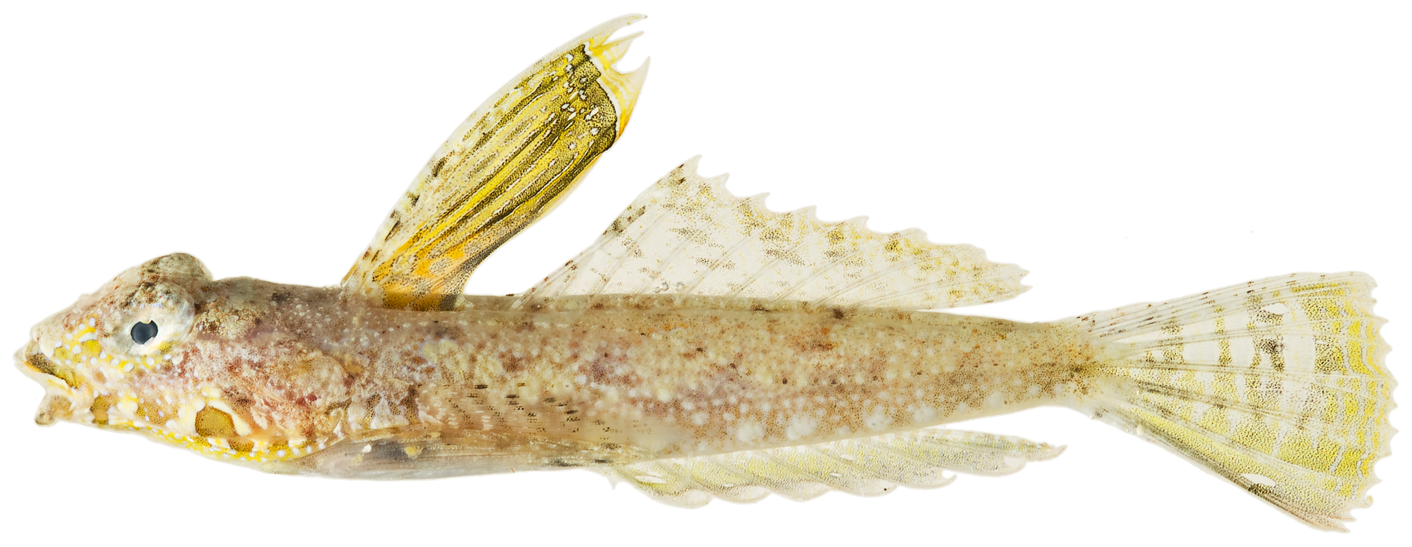 Paradiplogrammus bairdi Jordan, 1888—lancer dragonet, 39.8 mm SL, lateral view of an adult male. Photo by JT Williams.